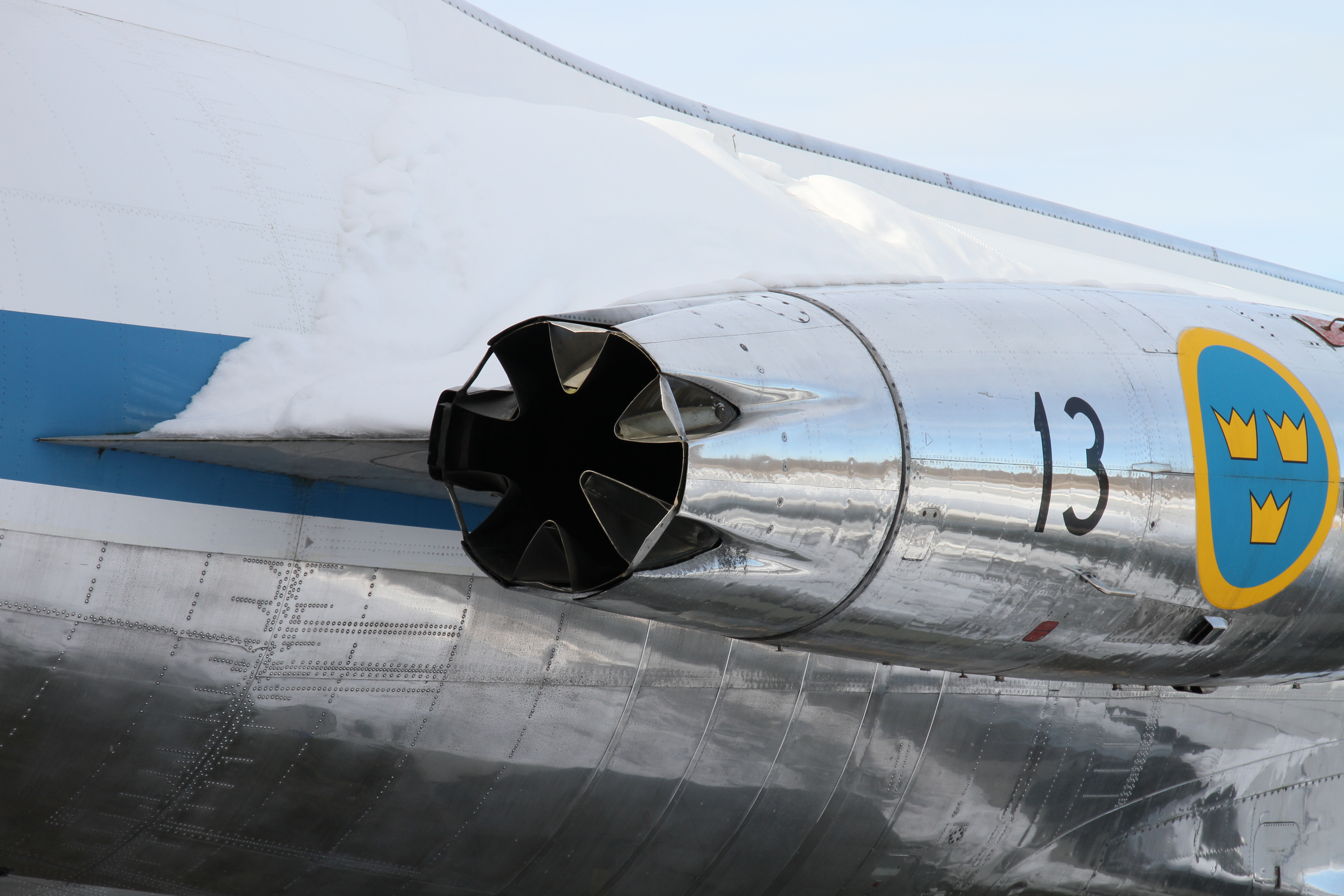 The right engine nacelle on a Sud Aviation Caravelle, on display at the Swedish Air Force Museum.